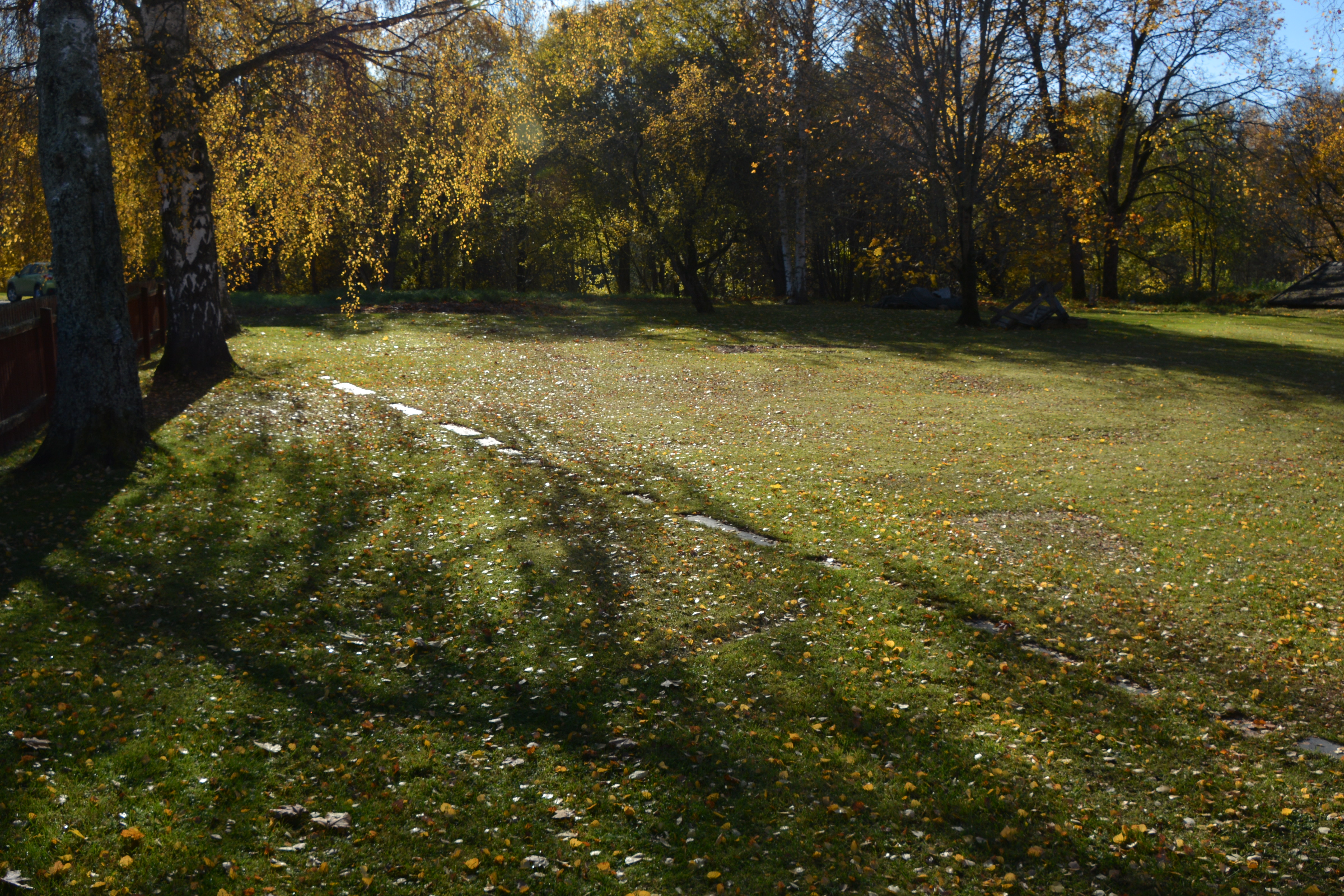 Markings for 15 Meredian East in Kopparberg, Sweden